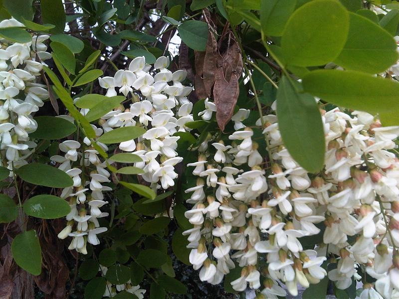 Robinia pseudoacacia flowers in London, England.